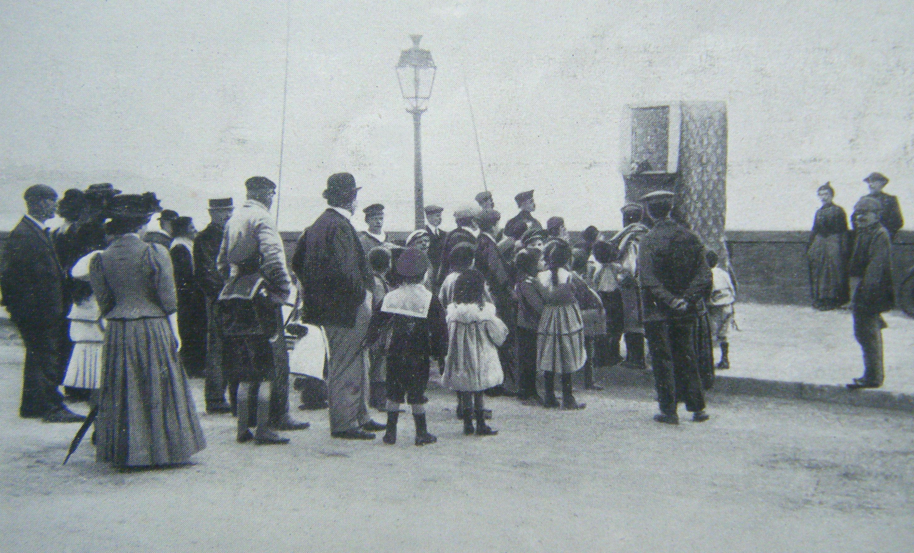 Puppetry in Naples 1911